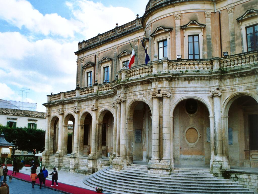 Main square of Noto, Italy with the town hall (Palazzo Ducezio).